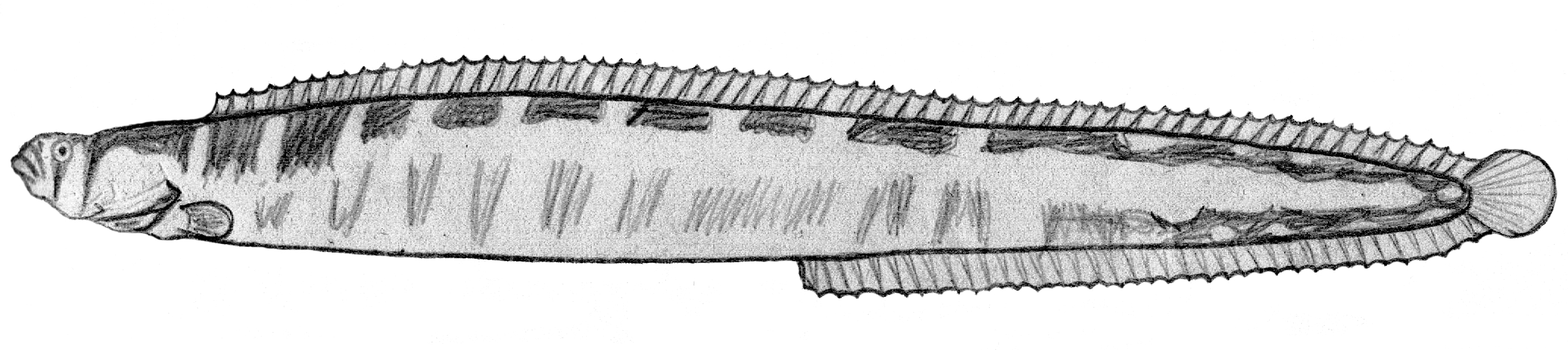 Pholis picta